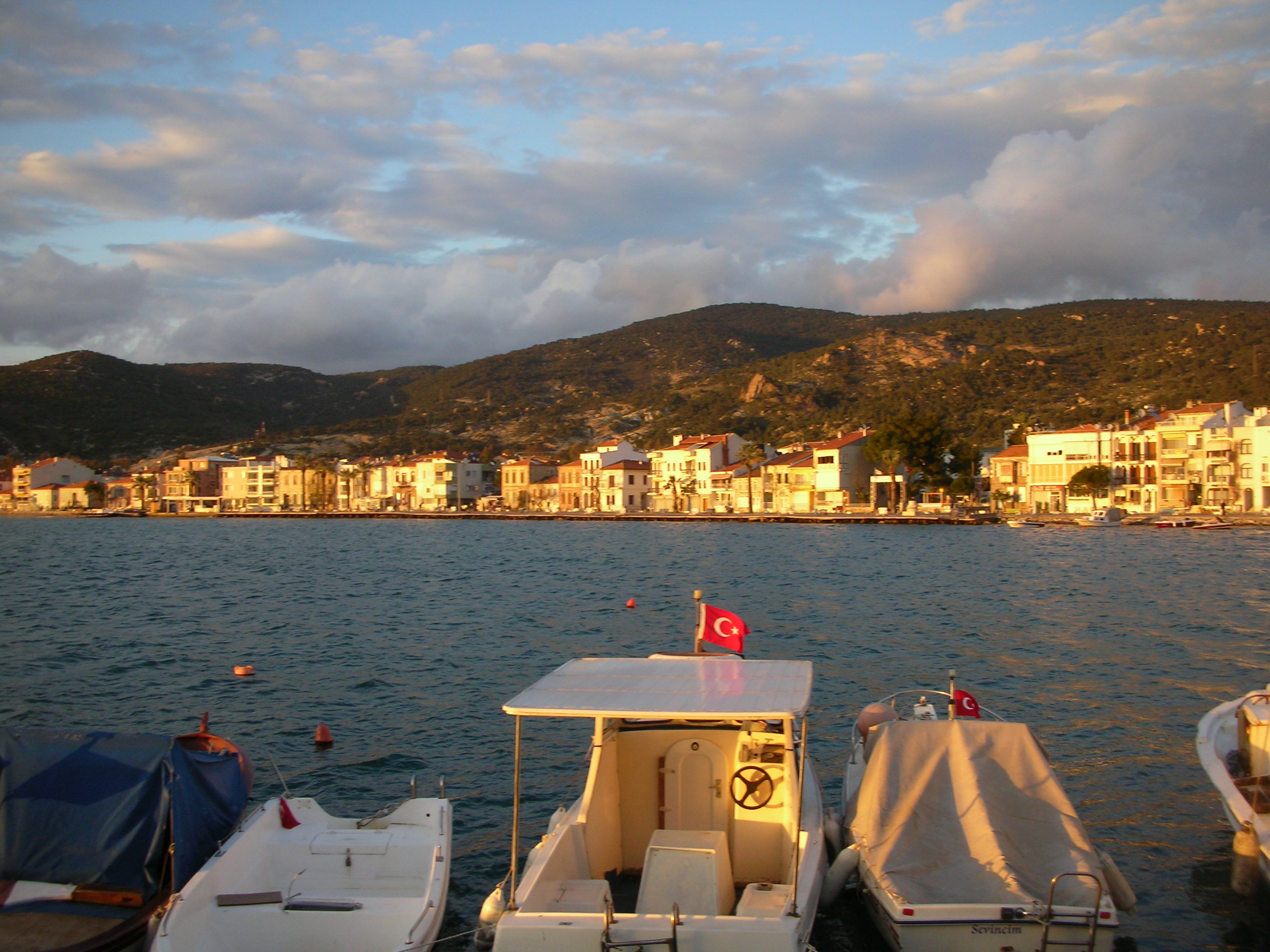 Sunset on Foça shores on 07 April 2015.